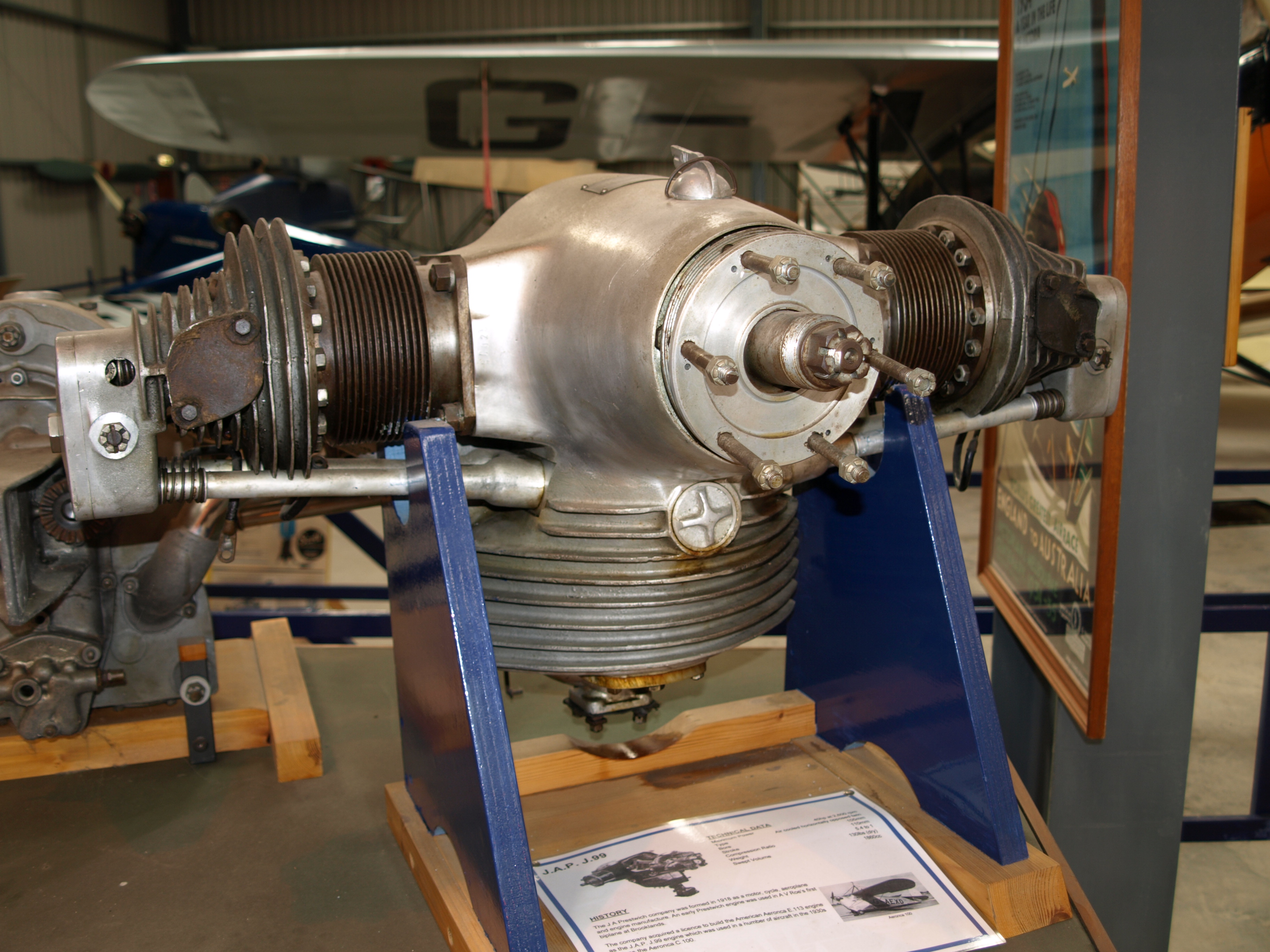 JAP J99 aircraft engine on display at the Shuttleworth Collection